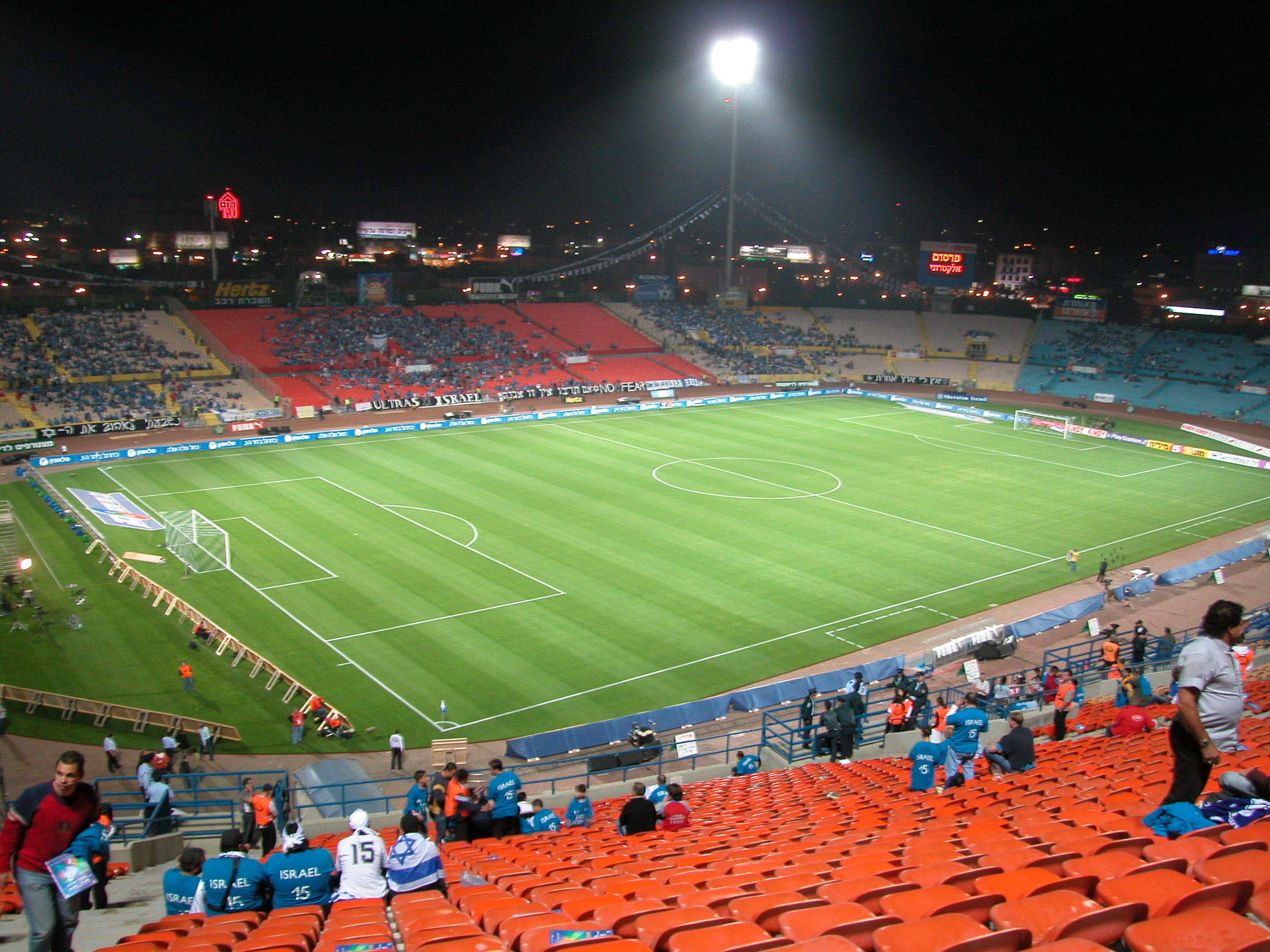 View from atop the stands of Ramat Gan Stadium before a World Cup 2006 qualifier between France and Israel.